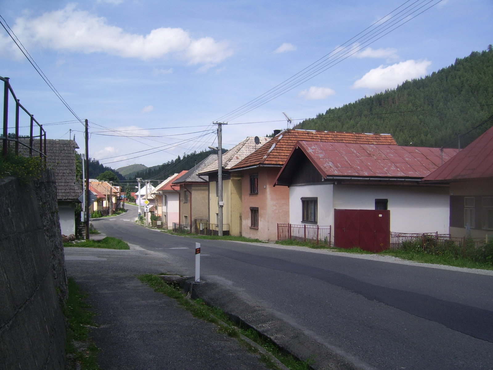 Main street of Vernár, Slovakia